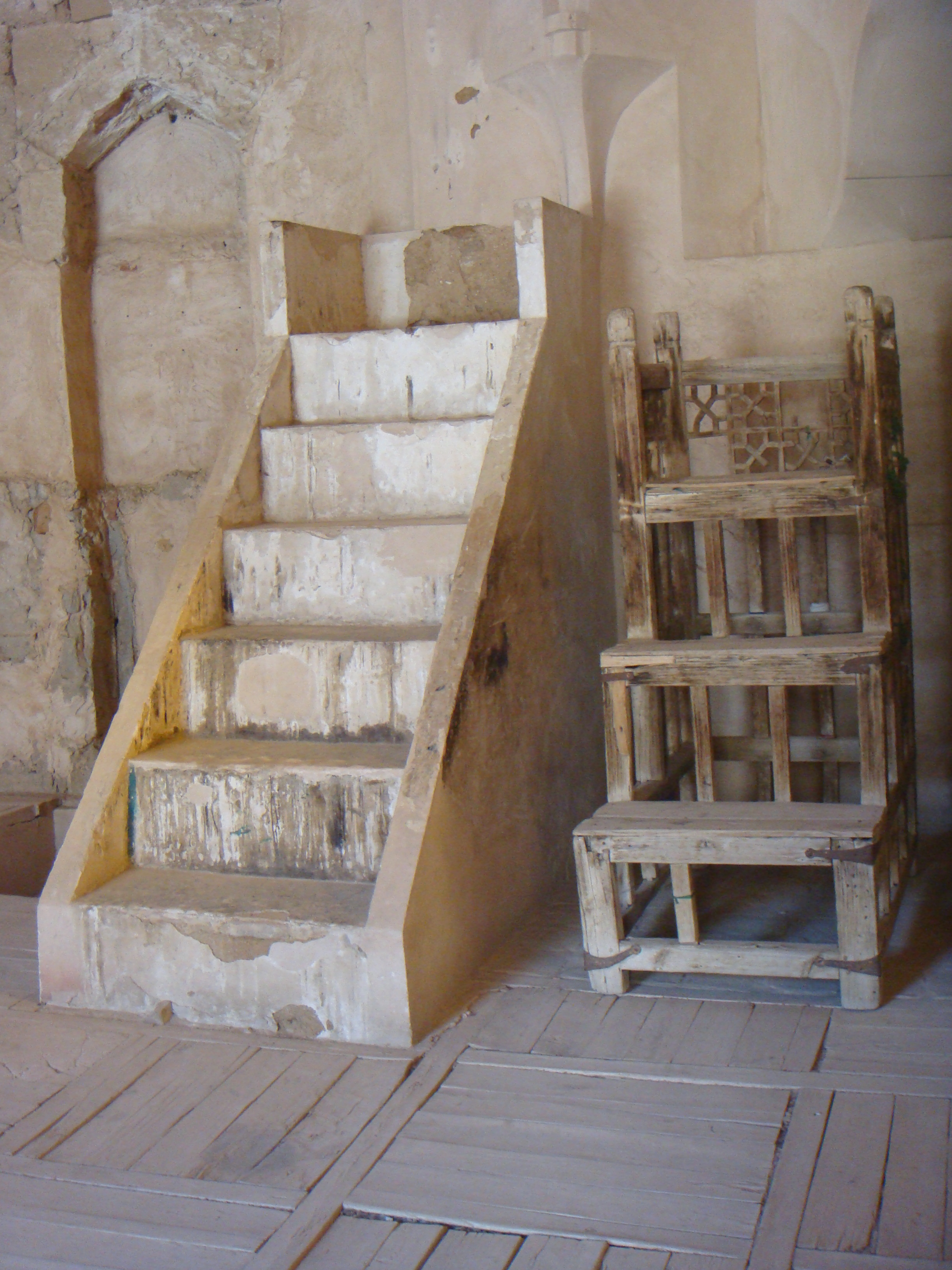 Minbar at Jameh Mosque in Natanz